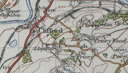 20th Century Map of Clifford, Heredfordshire